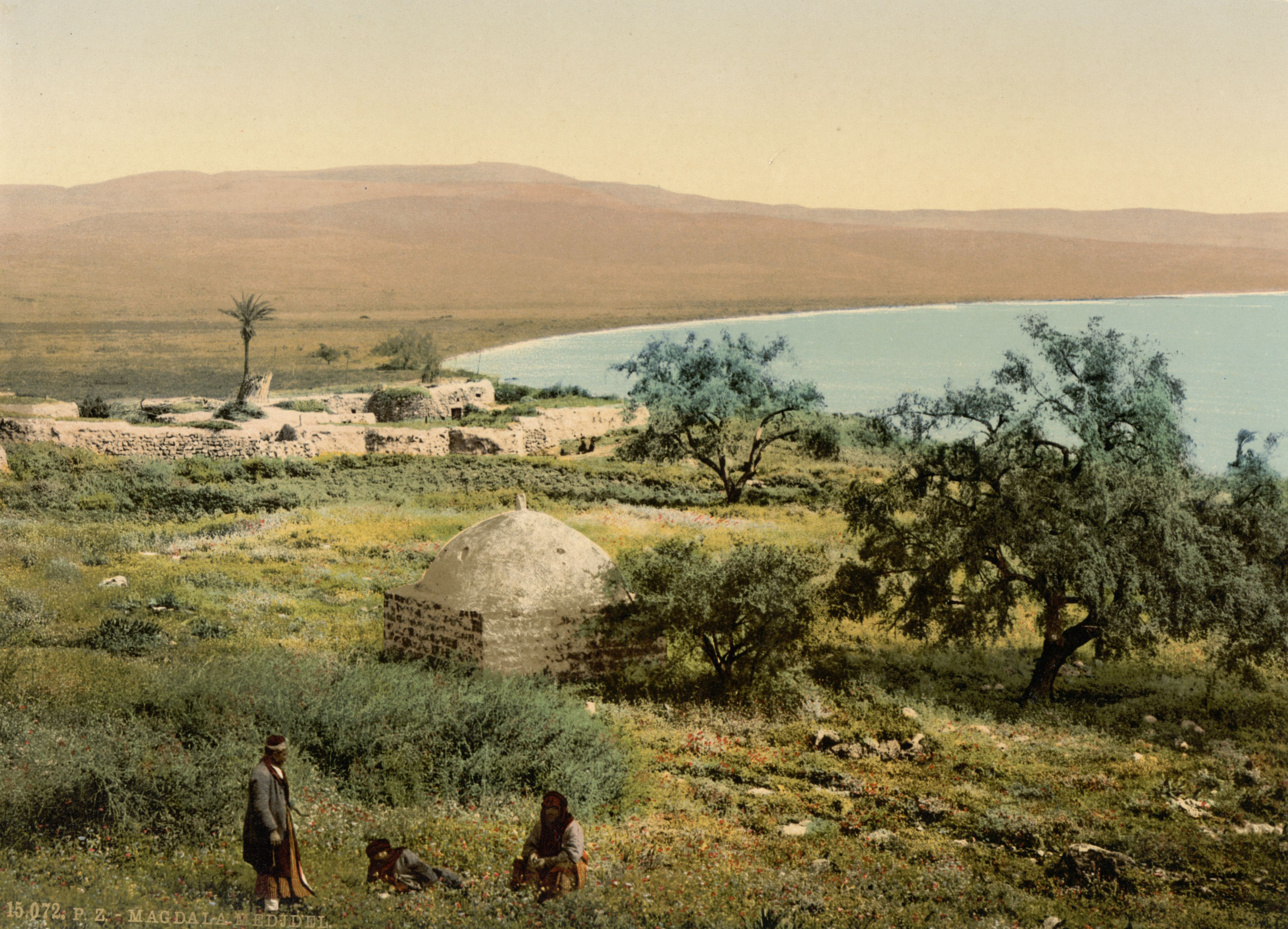 The birthplace of Mary Magdalene, Magdala, Holy Land, between ca. 1890 and ca. 1900